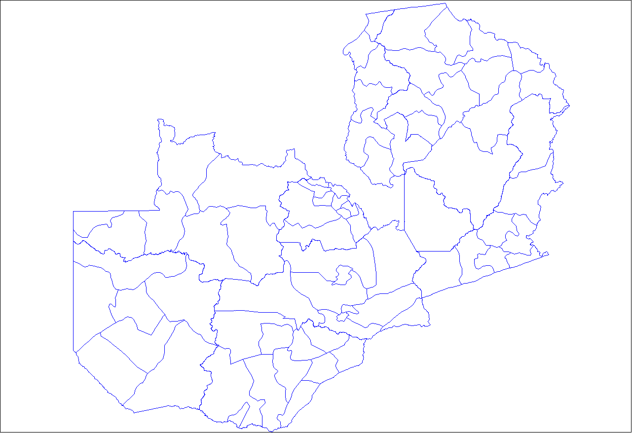 Map of the districts of Zambia. Created by Rarelibra 17:54, 20 December 2006 (UTC) for public domain use, using MapInfo Professional v8.5 and various mapping resources.